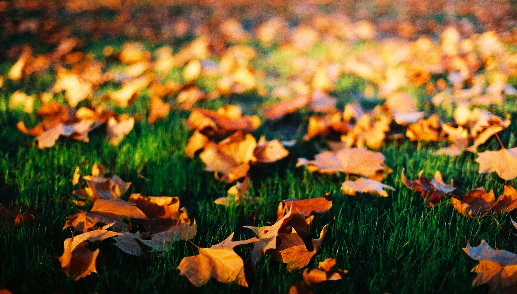 Autumn leaves from the plane trees in the Carlton Gardens, Melbourne.